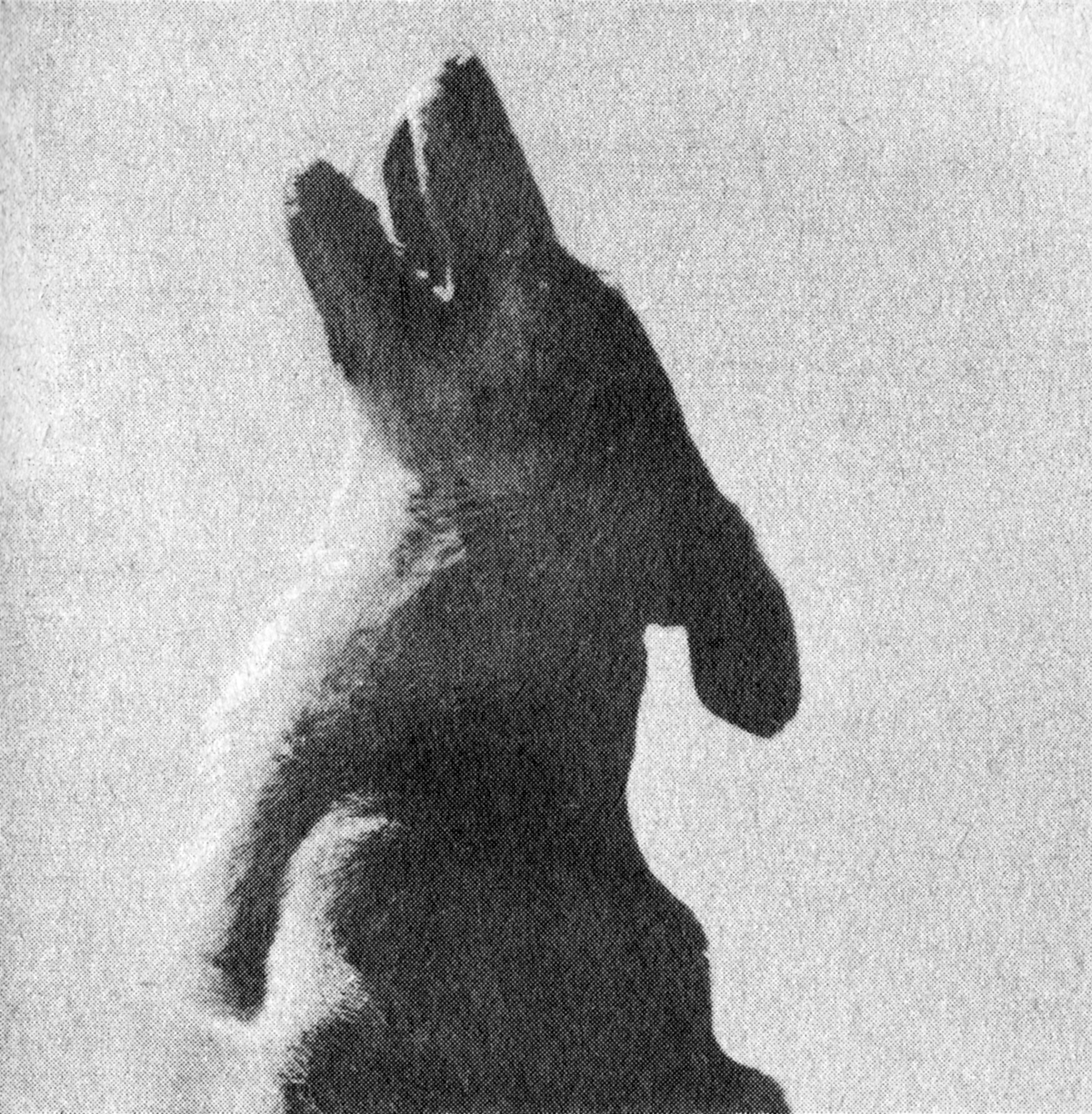 Promotional still for the 1934 film, The Case of the Howling Dog, a Perry Mason movie featuring the canine actor Lightning